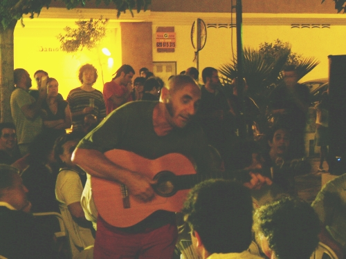 Pau Riba performing live, open air, amongst the audience in Tavernes de la Valldigna